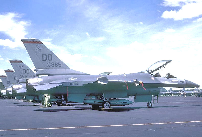 89th Fighter Squadron F-16As Wright-Patterson AFB, Ohio